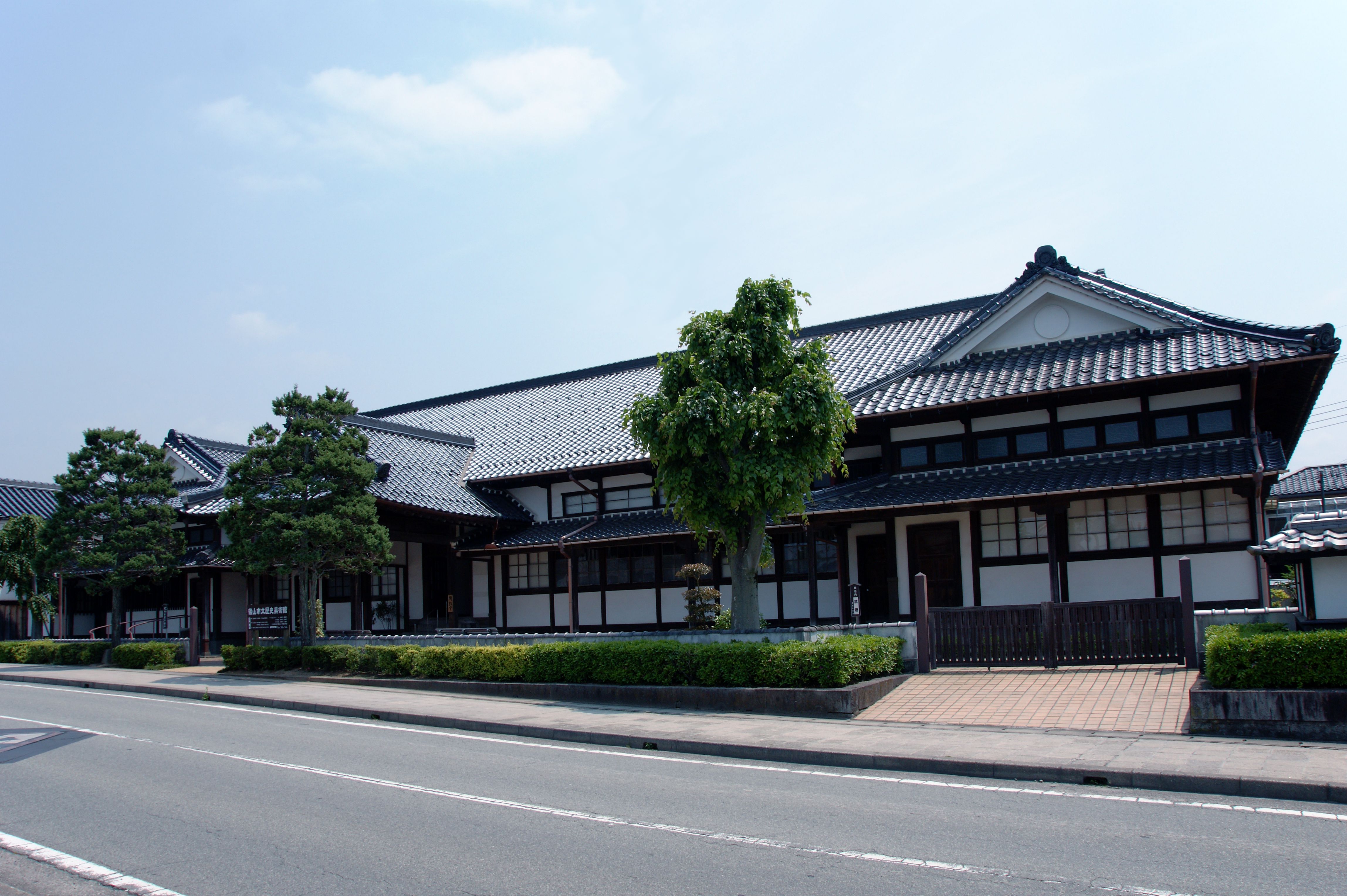 Sasayama Municipal Museum of History in Sasayama, Hyogo prefecture, Japan